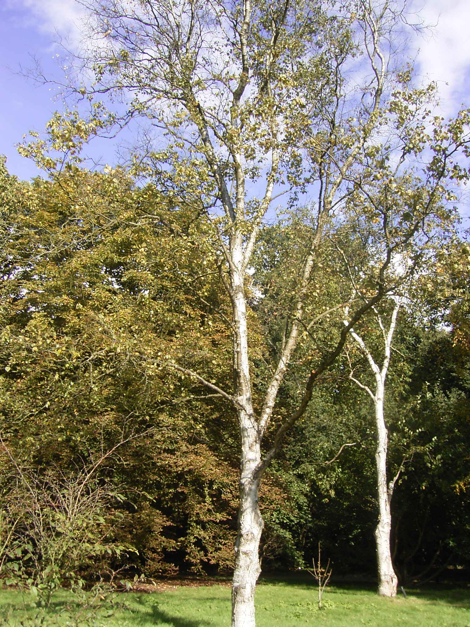 Deze foto toont Betula platyphylla. Ik nam de foto in het universiteitsarboretum Belmonte in Wageningen. This pic shows Betula platyphylla. I took the photo in the university arboretum in Wageningen.